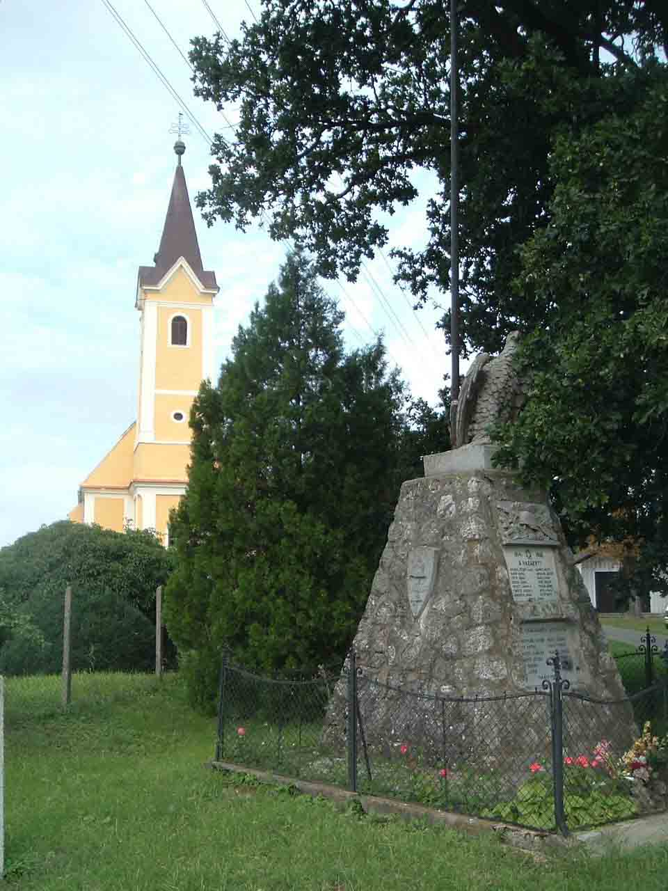 The church of Lipárt in Vasszécseny, Hungary.